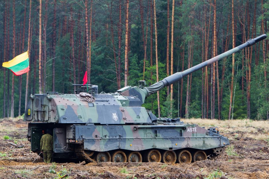 Lithuanian Armed Forces PzH2000